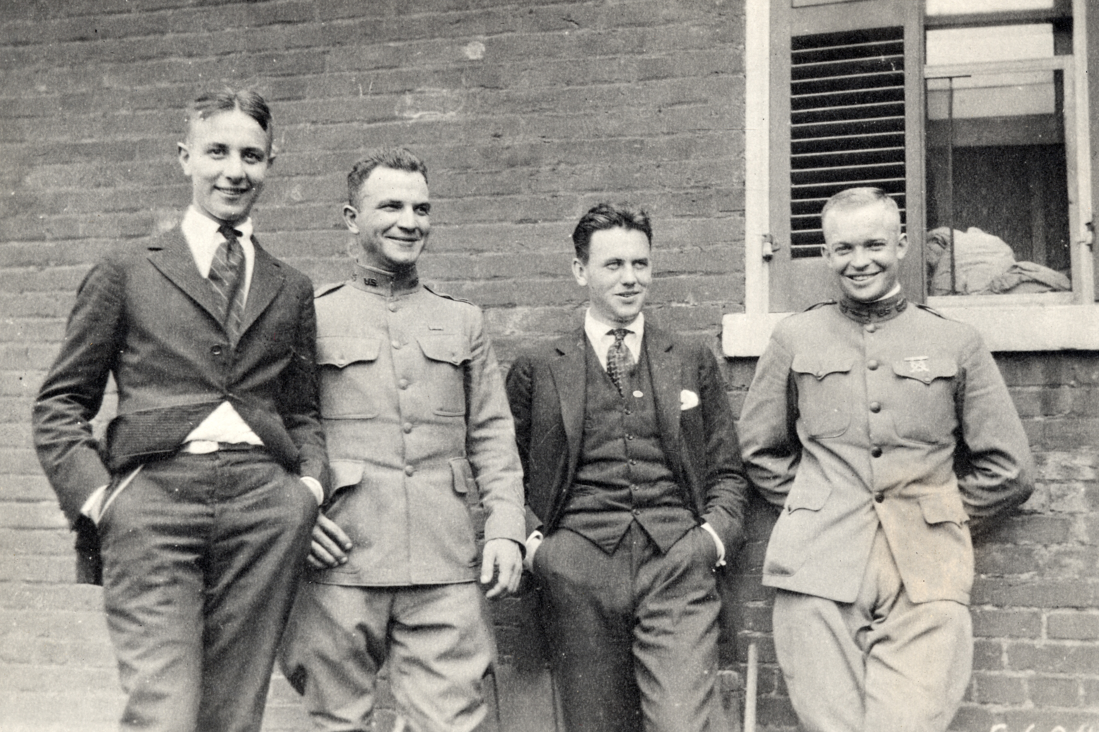 Dwight Eisenhower, far right, with three friends (William Stuhler, Major Brett, and Paul V. Robinson) in 1919, four years after graduating from West Point. The 29-year-old lieutenant colonel (Bvt.) participated in the first transcontinental military convoy. The convoy left Washington, D. C. on July 7 and covered 3,200 miles, over half of which were dirt roads. They followed the Lincoln Highway, a transcontinental route established in 1913. It entered San Francisco after nearly 60 days of travel. (From the Eisenhower Presidential Museum archives.)